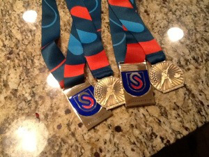 Patrick Meek displays the medals he won at the 2012 US long distance championships (gold in the 25000 and 50000 meter events)